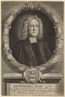 Painting dating from the early 18th century of Humphrey Hody by Michael Vandergucht